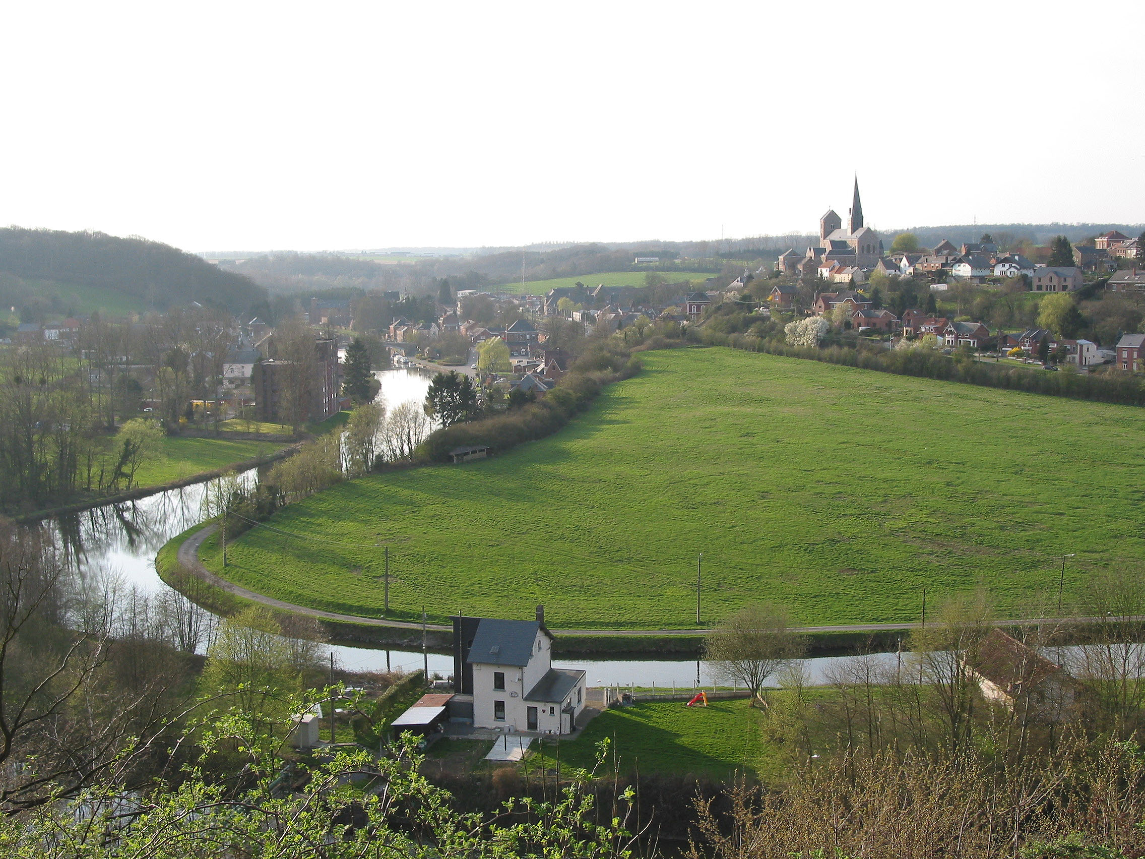 Lobbes (Belgium), the Sambre river, the old town and the Saint Ursmar Collegiate church (IXth century).